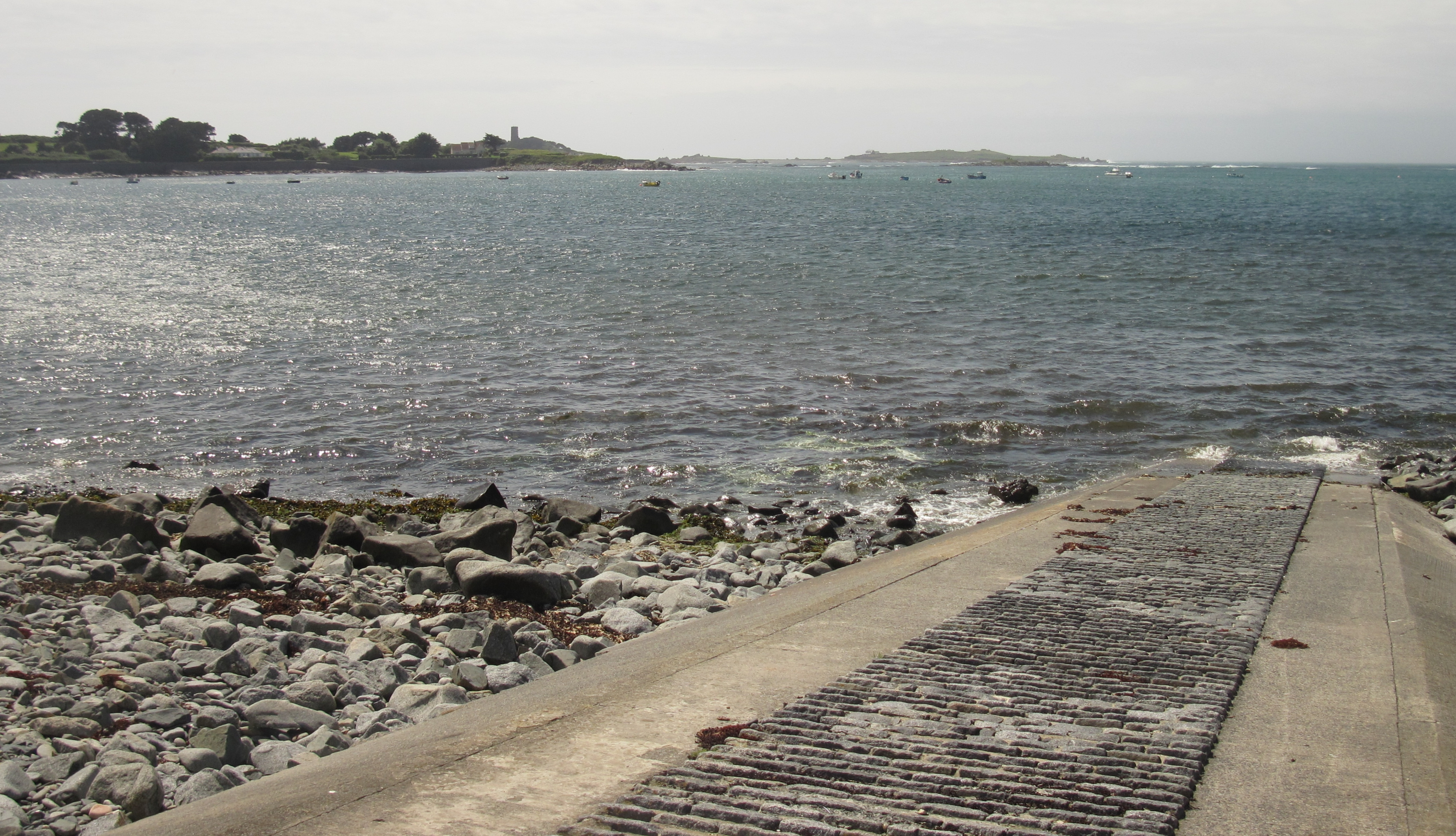 View west from the Route de la Roque towards the German WW2 watch tower at l'Eree and the island of Lihou